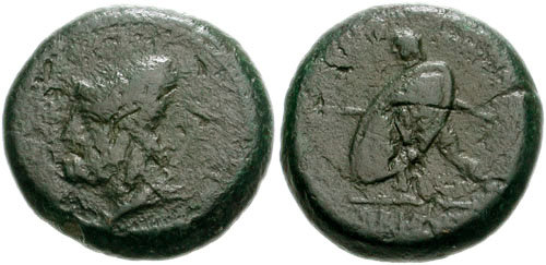 Umbria, Ariminum. Circa 268-225 BC. Æ 19mm (6.65 g). Bust of Vulcan left, wearing pileus Warrior advancing left, holding large shield and spear. ARIMN in exergue